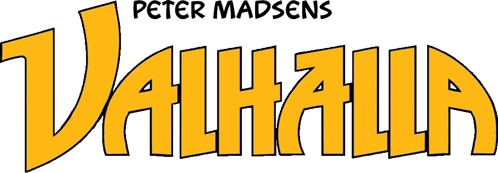 The logotype for the Danish comic "Valhalla" by Peter Madsen.